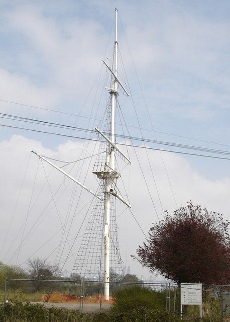 Training mast at H.M.S. Ganges H.M.S. Ganges was a training establishment for the Royal Navy. My dad was here as a 15-year old cadet in 1947, and he told me that on fine Sunday afternoons (their only free time) he and his friends would sit on the lowest yardarm on the mast to soak up the sun. Every cadet had to climb to the semi-circular platform just below the highest yardarm at least once during their training; the bravest (not my dad!) climbed to the very top of the mast and stood on the 12-inch diameter cap.